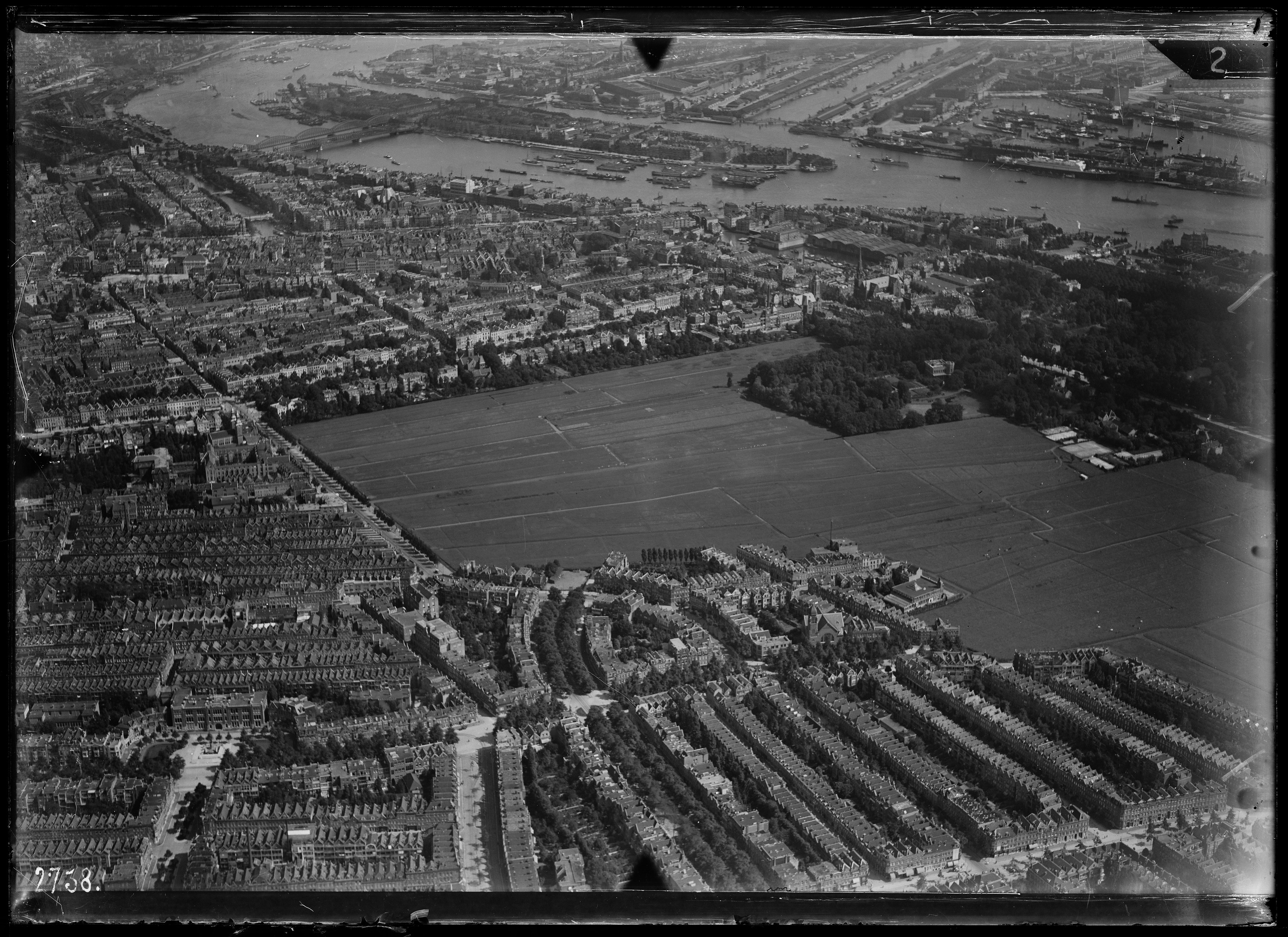 Aerial photograph of Rotterdam, The Netherlands. Land van Hoboken.